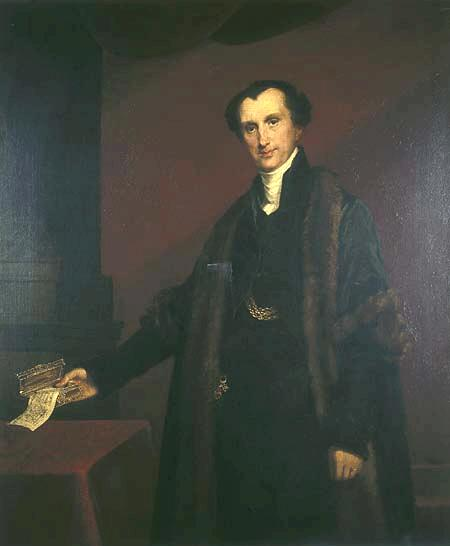 Portrait of Sir James Shaw, 1st Baronet (1764-1843), Lord Mayor of London and Member of Parliament for London.